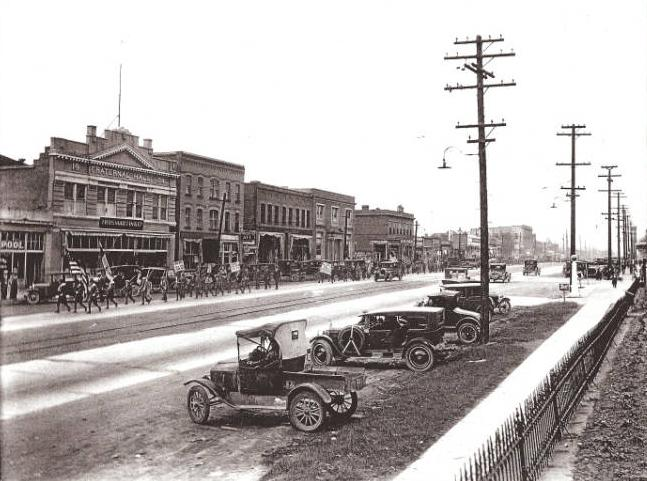 Independence Day parade on State Street Murray Utah, circa 1920.